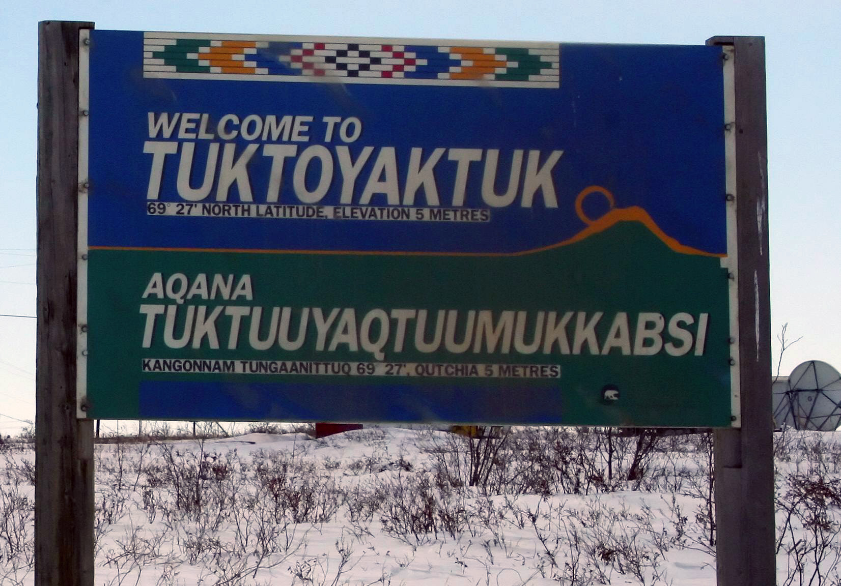 Welcome to Tuktoyaktuk. Cropped.